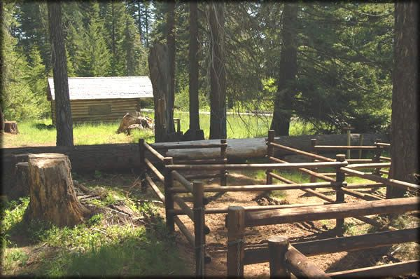 Willow Prairie Horse Camp, located in Rogue River National Forest, Jackson, County, Oregon